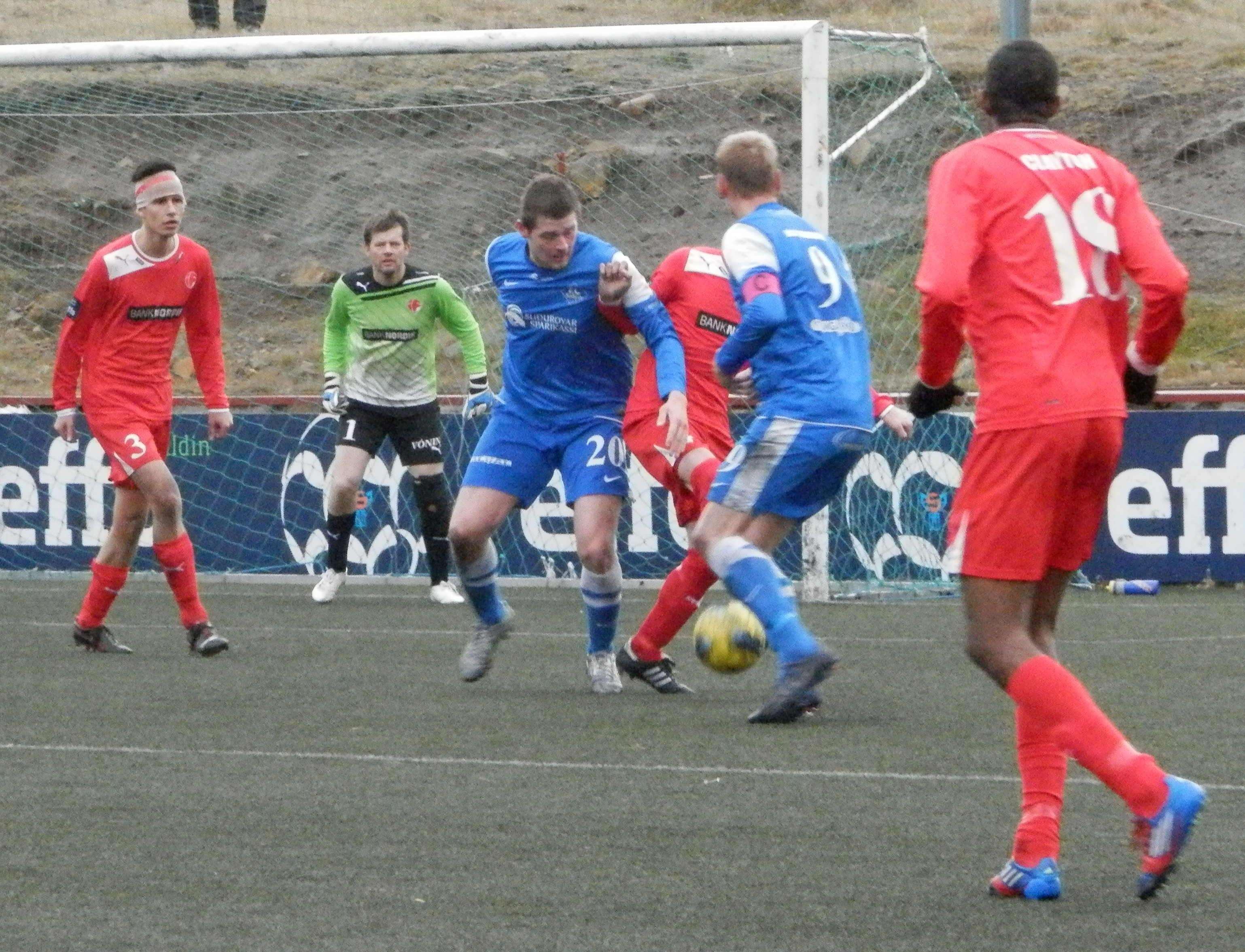 Football match in Effodeildin (the premier league of the Faroe Islands) on 29 September 2012 between FC Suðuroy and ÍF Fuglafjørður. Both before and after the match ÍF was number two in the division and FC Suðuroy was number ten. This was the second last round of Effodeildin 2012. Føroyskt: Næstseinasta umfar í Effodeildini í 2012. Dysturin er millum FC Suðuroy og ÍF, seinasti heimadystur hjá FC Suðuroy. ÍF vann dystin 4-1.